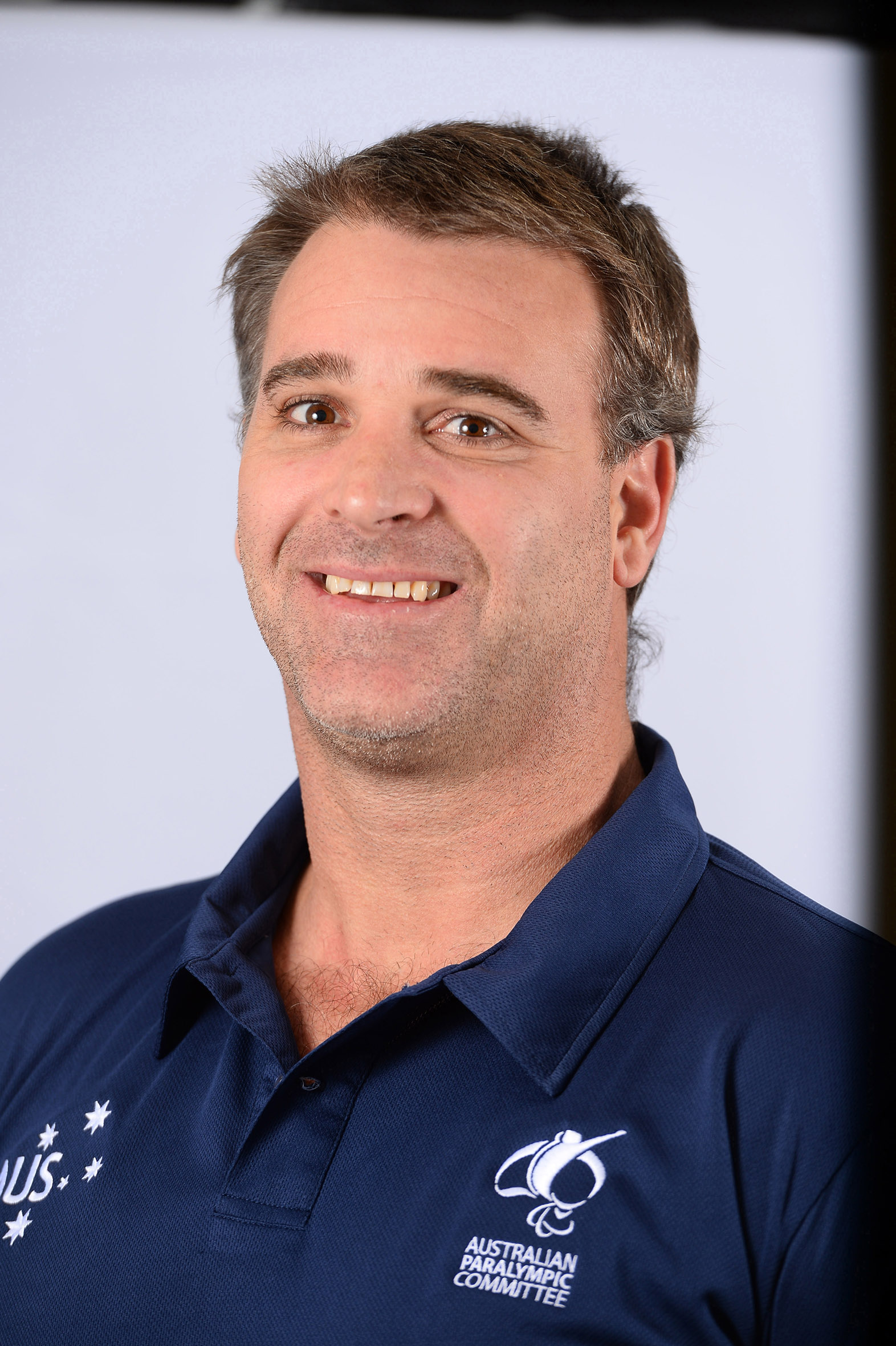 Portrait photograph of Brad Ness taken at team processing session for shadow members of 2016 Australian Paralympic team